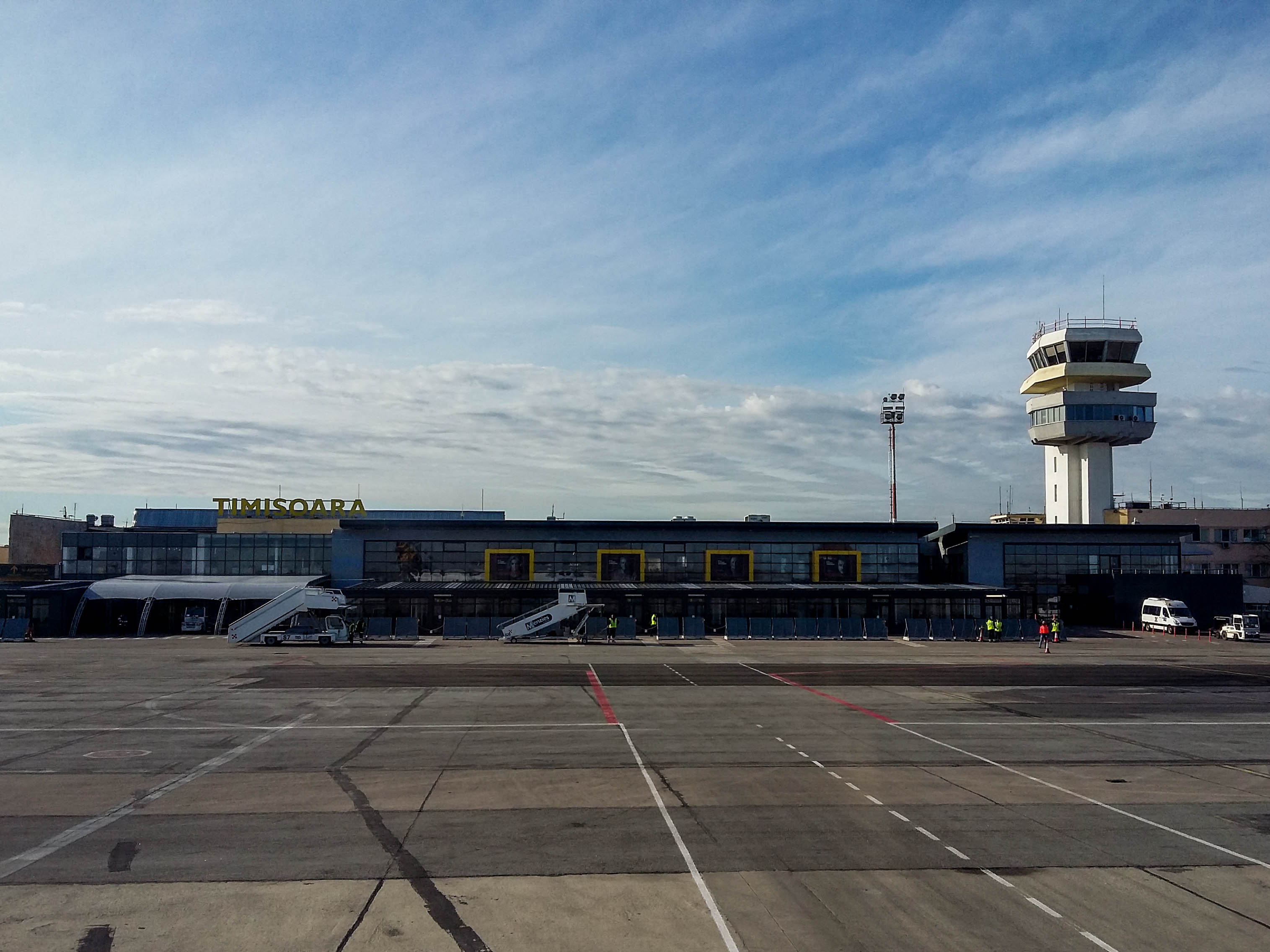 Just arrived in Timisoara. It's a very short flight from Bucharest (less than 1 hour). Took us longer to get from the airport to the hotel...